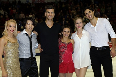 Gold Medalists at the exhibition gala of the 2014 Skate Canada International.